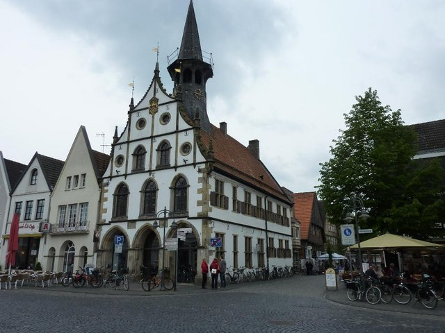 Am Markt. Rathaus in Burgsteinfurt., near to Steinfurt, Deutschland (Zone 32). This image shows a heritage building in Germany, located in the North Rhine-Westphalian city Steinfurt (no. 3).